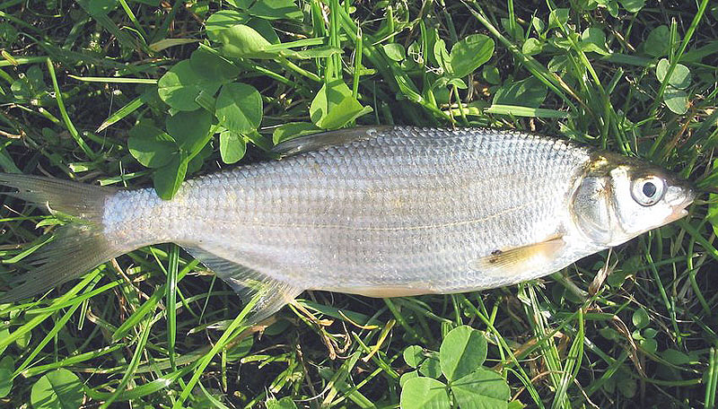 Vimba vimba River Morava, Danube system photographer: user:Tokic